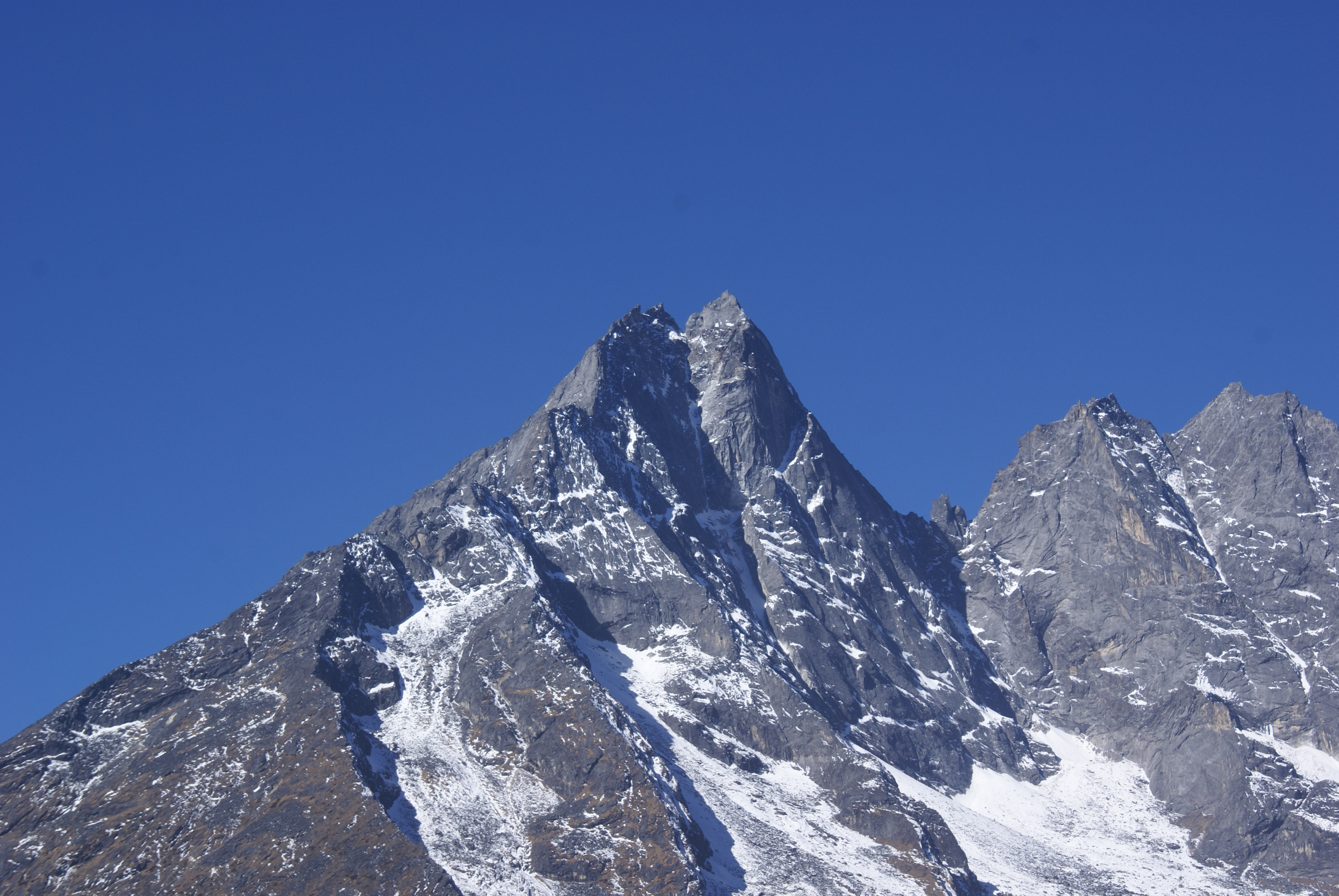 Khumbila from the east.